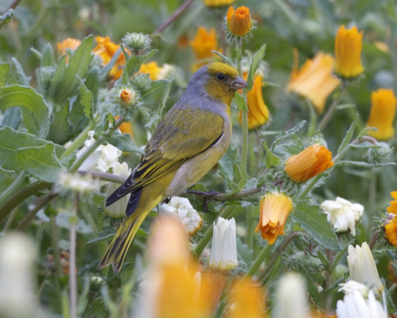 Cape Canary Serinus canicollis Nominate race: Serinus canicollis canicollis Kirstenbosch, Capetown, South Africa 5th. October 2009 Swahili: Chiriku Shingo-kijivu Tsonga: Risunyani Xhosa: Umlonji Zulu: umZwilili Distribution; ssp